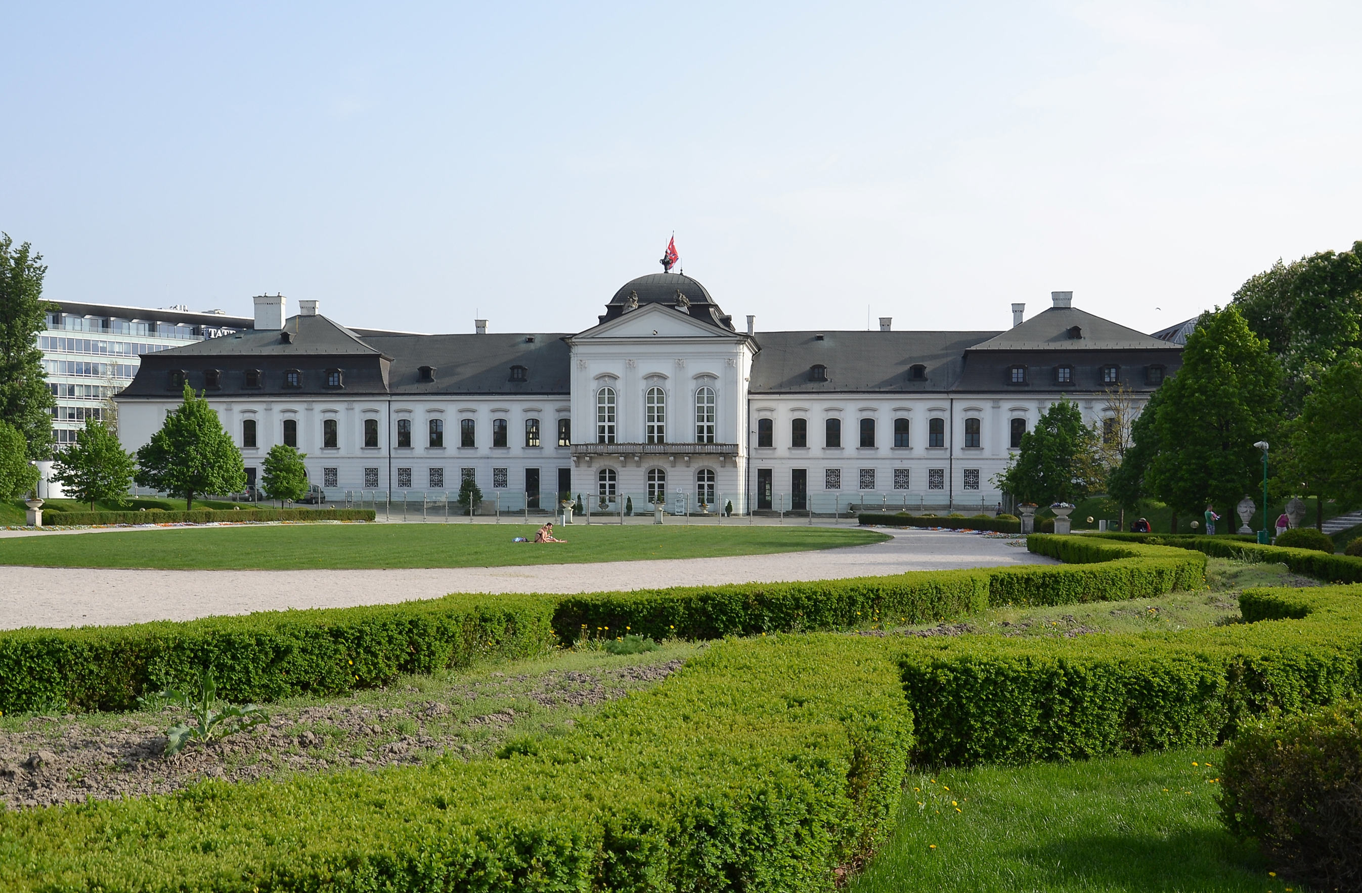 Grassalkovich Palace, Bratislava (Pressburg, Pozsony)